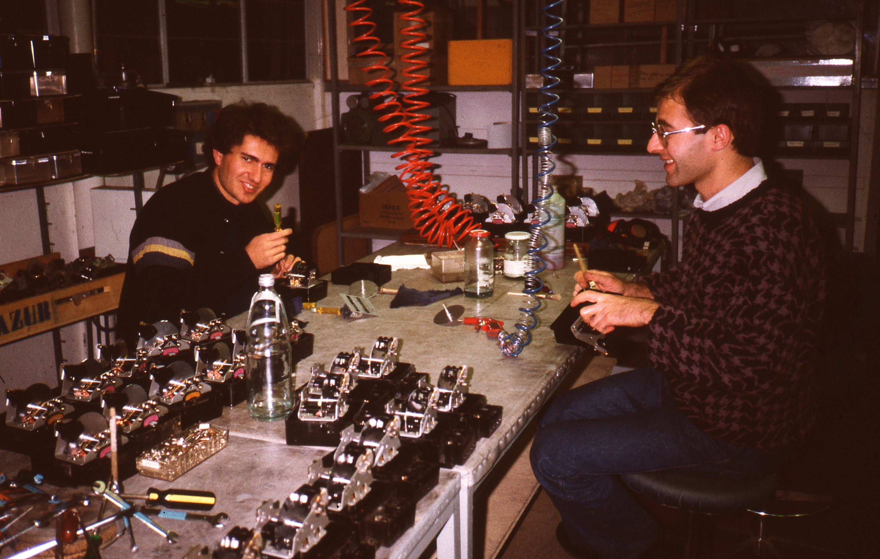 Electrical shop at Loppiano specializing in refurbishments of power meters. Work at Loppiano, the center of Focolare movement taken in 1989